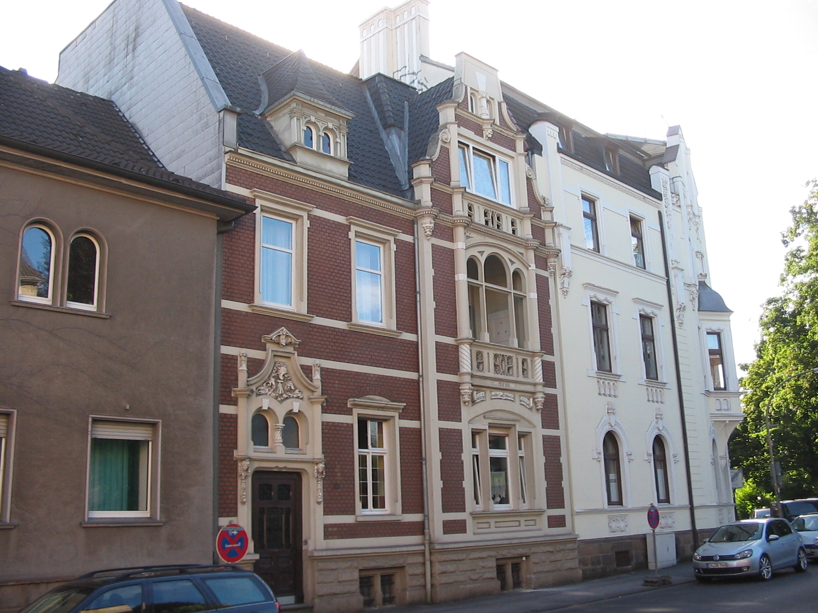 House Nordstraße 23 in Witten, Germany